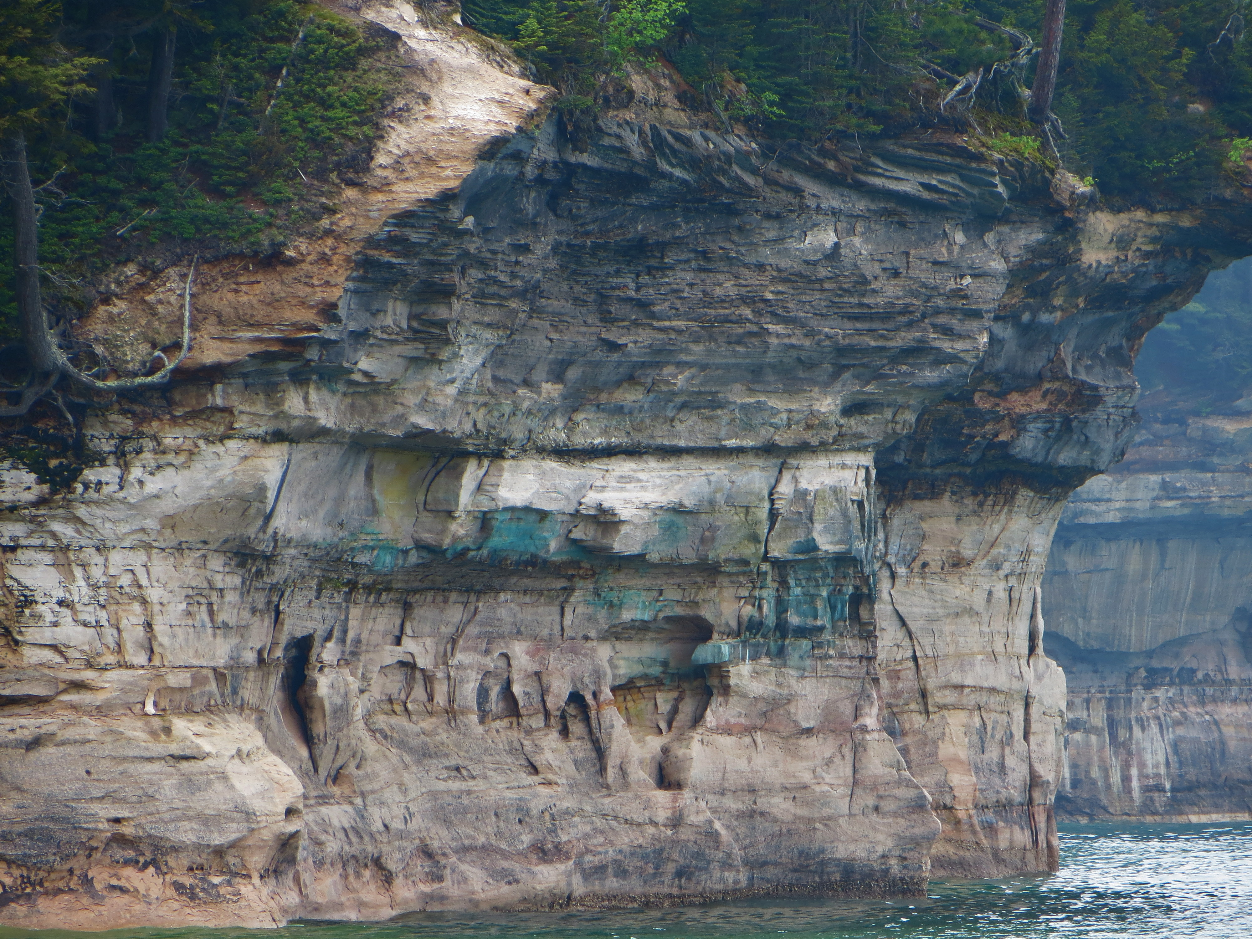 These colors are caused by mineral seepage from the rocks. So cool!!!